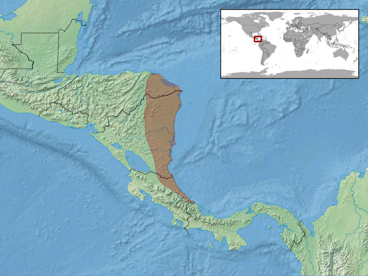 geographic distribution of Drymobius melanotropis (Native: Costa Rica; Honduras; Nicaragua)